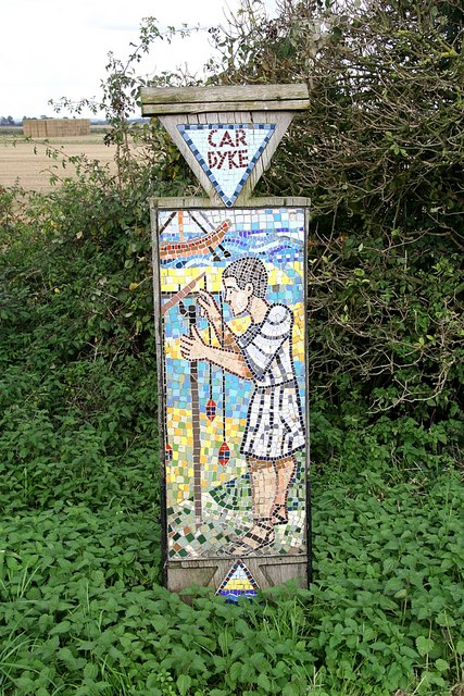 Car Dyke sign Mosaic depicting a Roman engineer and Car Dyke